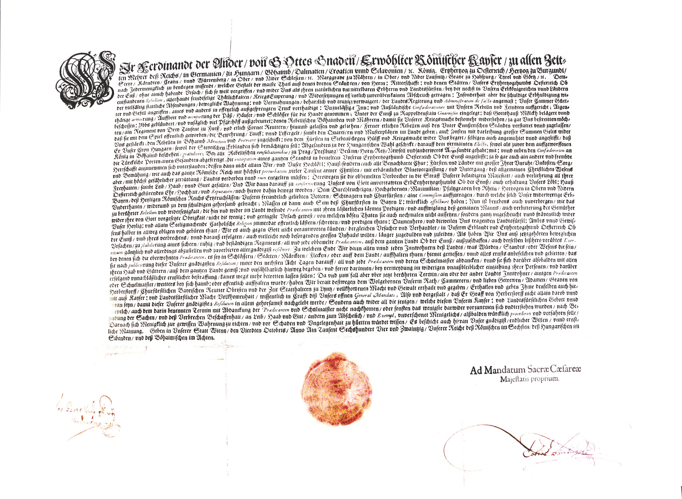 Reformationpatent of Ferdinand II, Holy Roman Emperor.